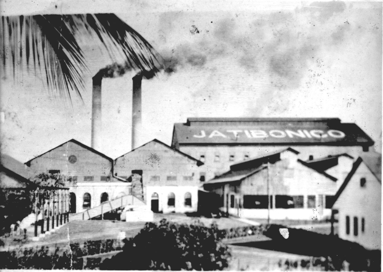 Ingenio Jatibonico — a cane sugar factory in Sancti Spíritus Province, Cuba. It was built in 1905 by the U.S. based Cuban Sugar Company.